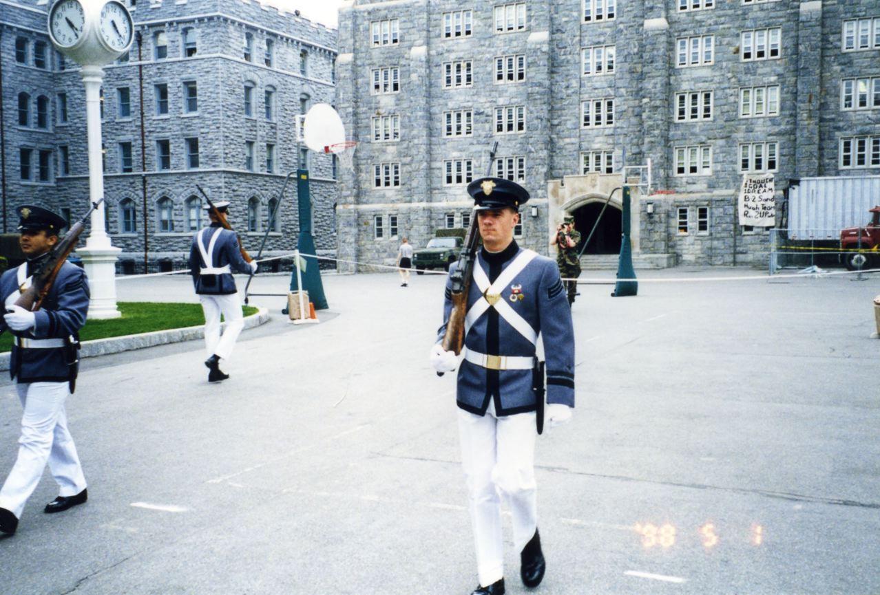 A West Point cadet walks punishment tours, aka "walking the area" in May 1998